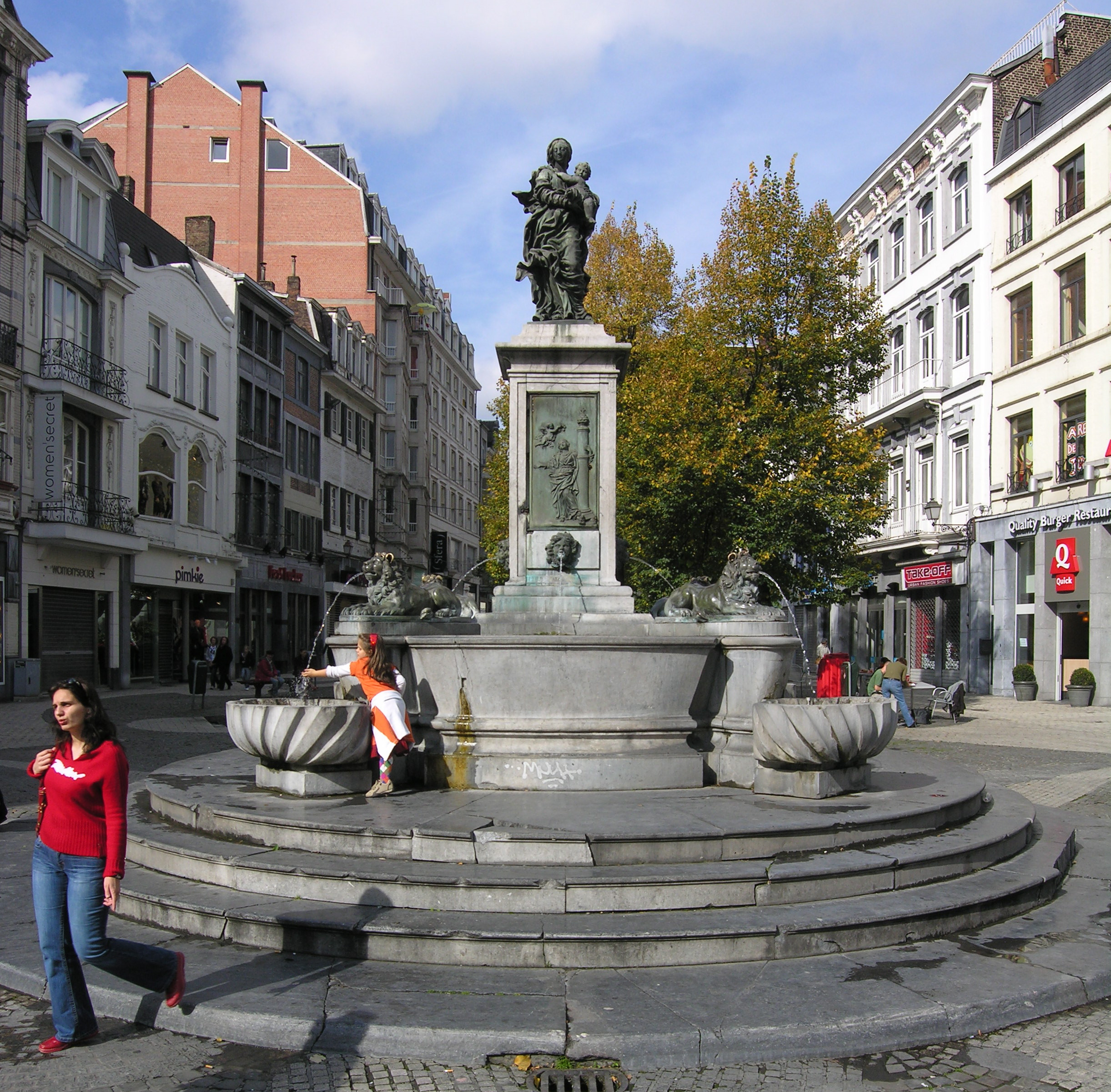 Liège (Belgium), Vinâve d'Ile, Fountain with the Virgin by Jean Del Cour (18th century)